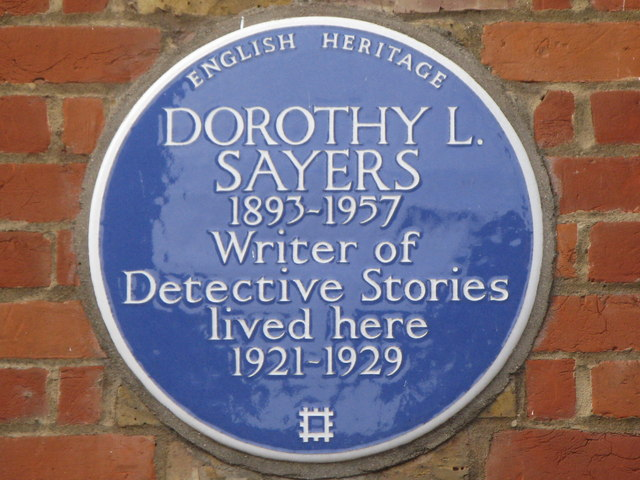 Blue plaque re Dorothy L Sayers on 23 & 24 Gt. James Street, WC1 See 1237424.